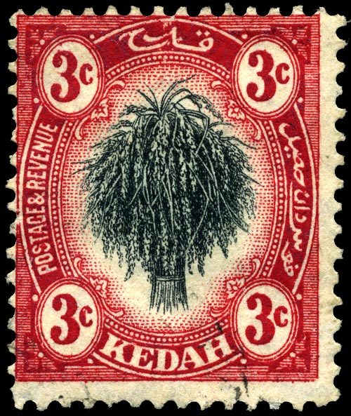 Kedah 3c stamp of 1912